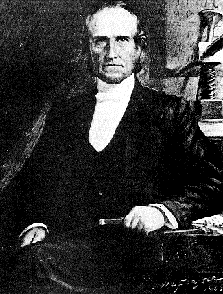 James Evans (January 18, 1801 – November 23, 1846) was a Canadian Methodist missionary and amateur linguist. He is best remembered for his creation of the "syllabic" writing system for Ojibwe and Cree, which was later adapted to other languages such as Inuktitut